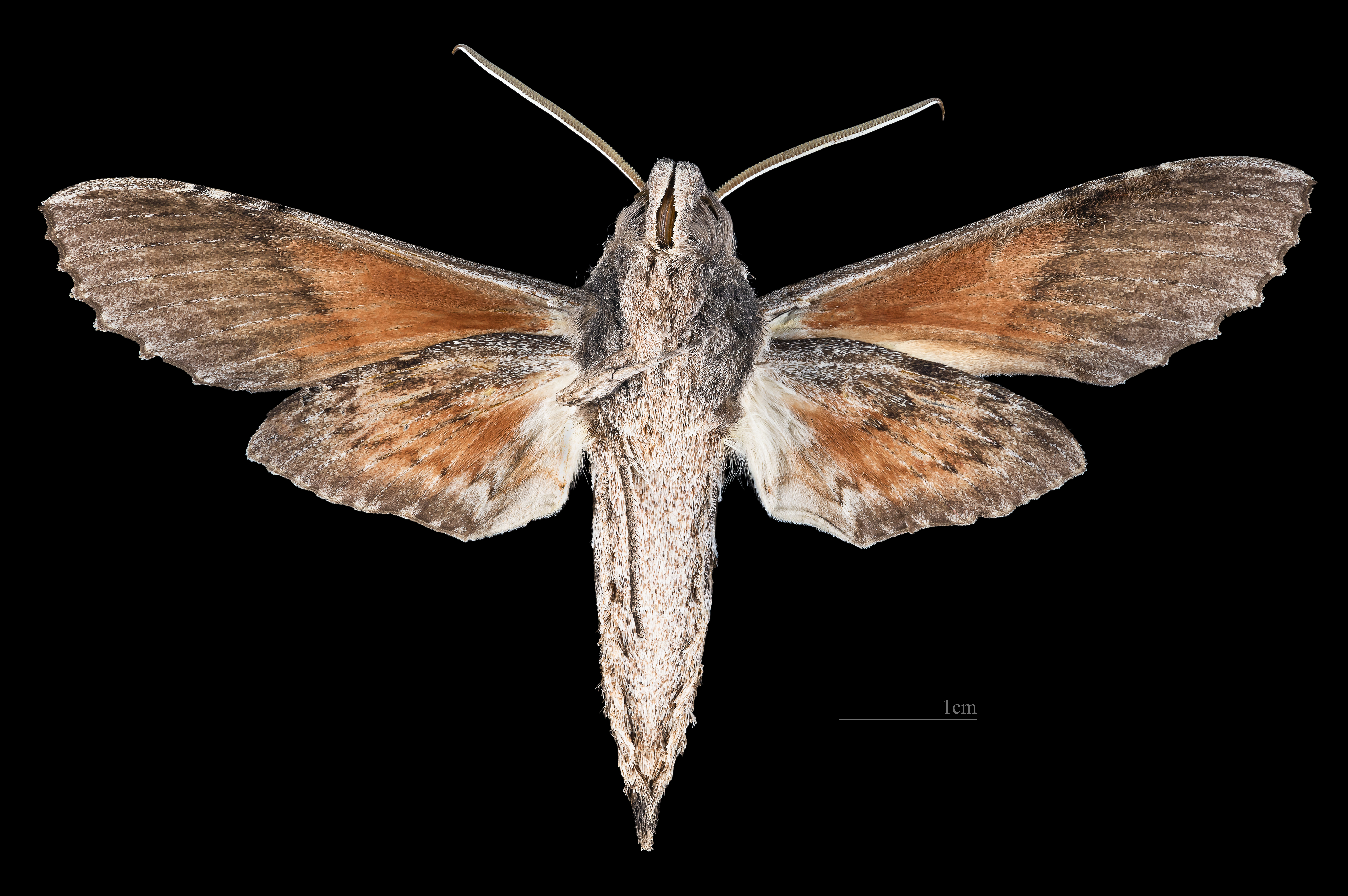 Erinnyis impunctata - △ Ventral side Collection of the Mathematician Laurent Schwartz